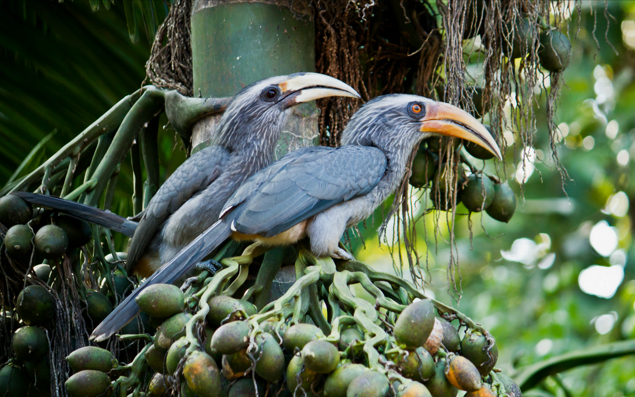 Malabar Grey Hornbill Ocyceros griseus, male and female, Nilambur, Kerala, India